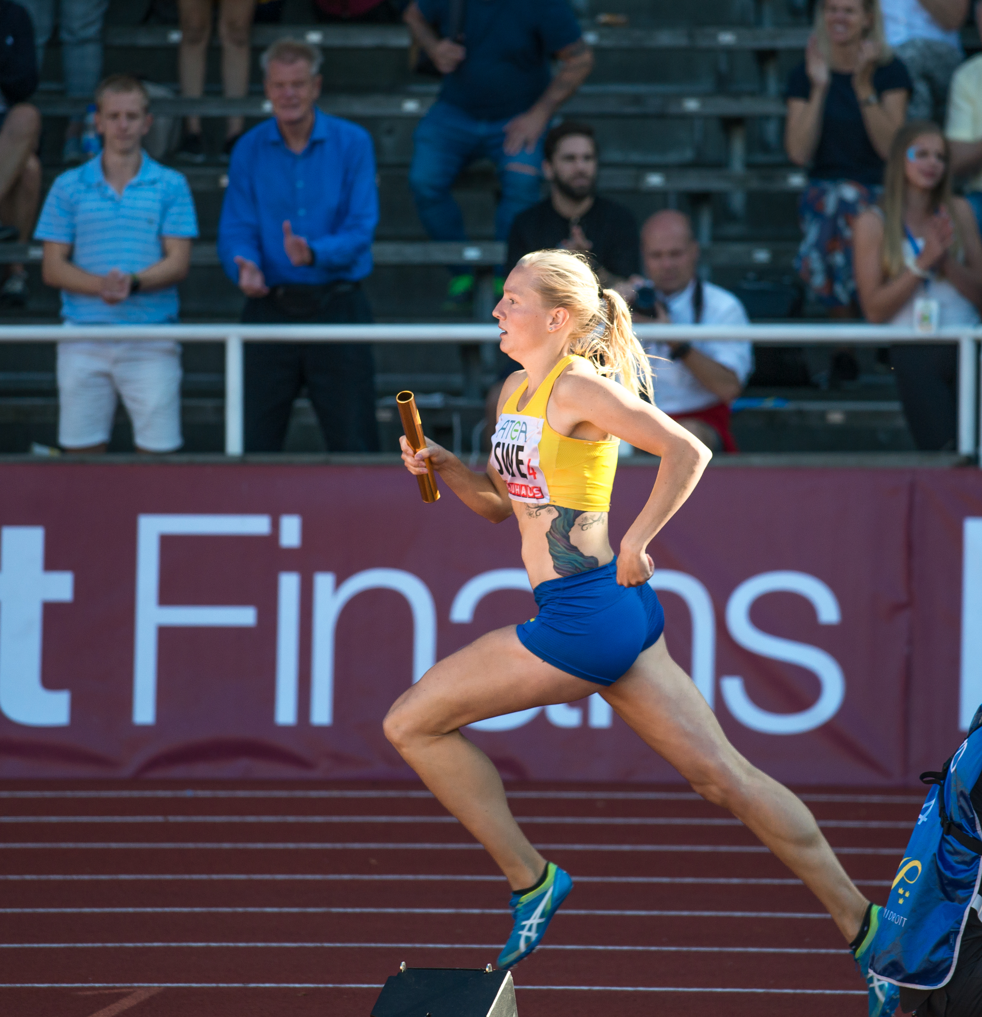 Moa Hjelmer during the Finland-Sweden athletics international 2019 at the Stockholm Stadium in August 2019.